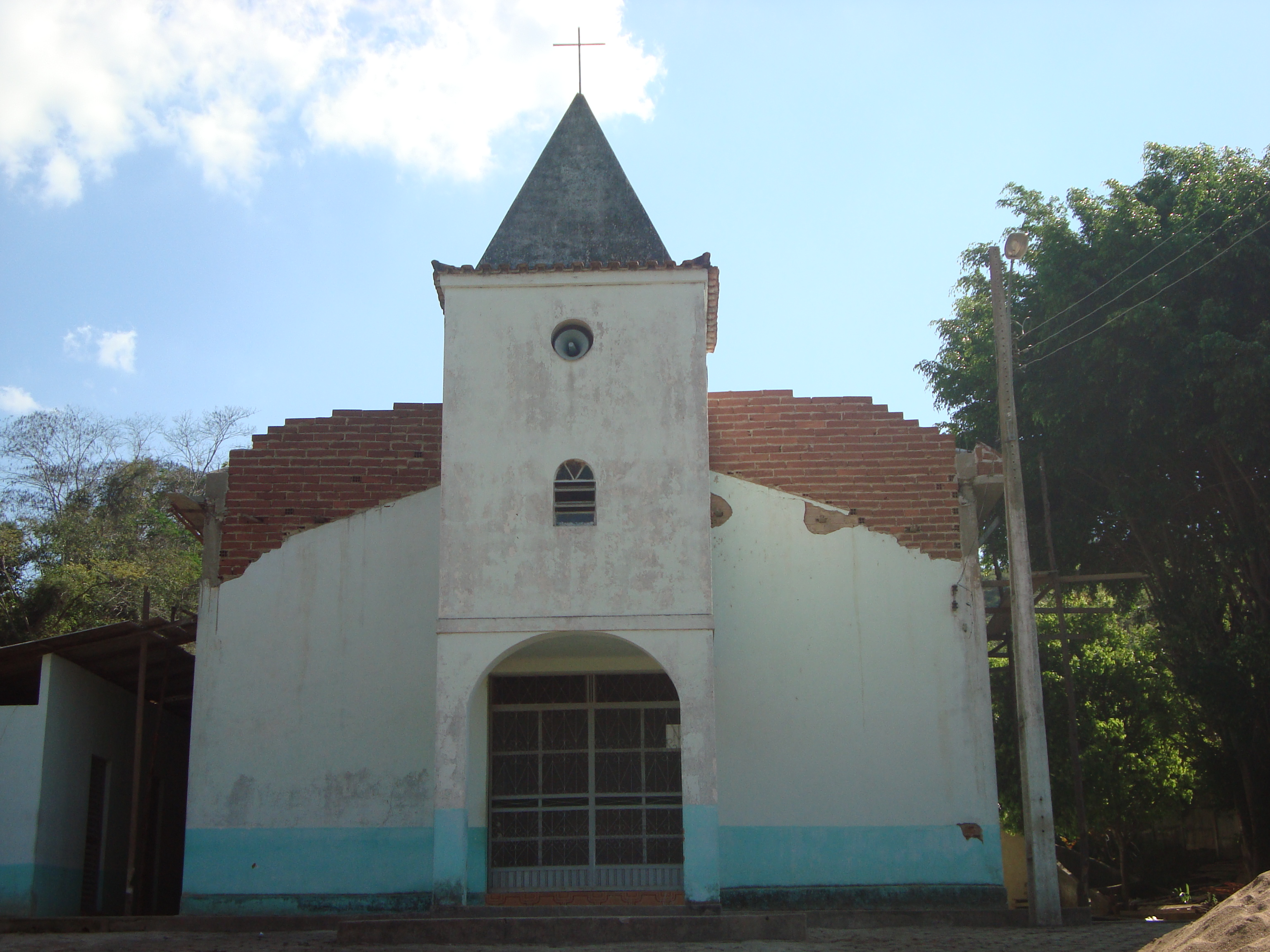 Catholic Church of Alto São Luís